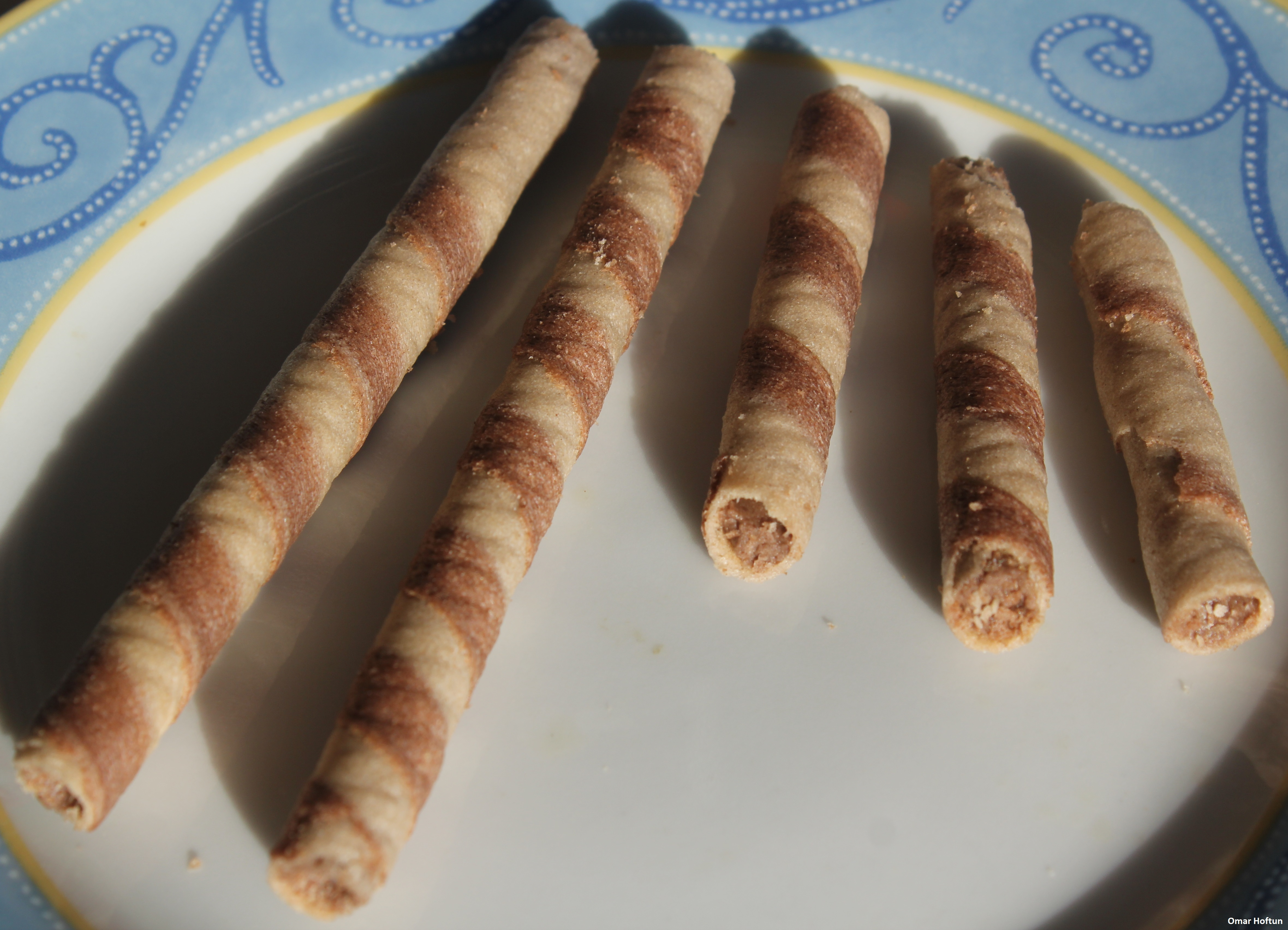 Ulker Rulokat Wafer Rolls with Hazelnut.